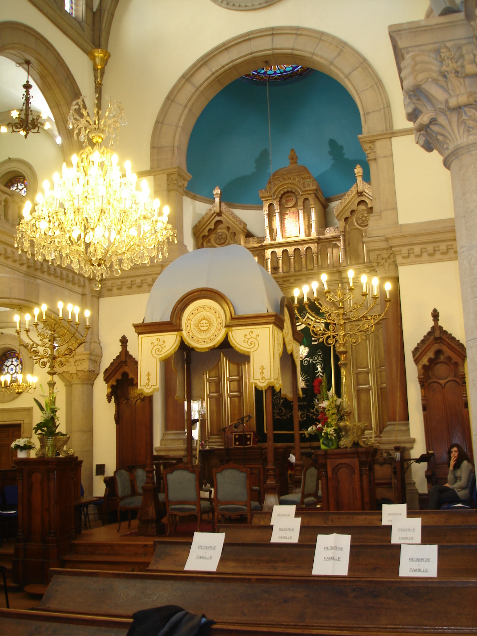 Ark and Bimah of the Great synagogue of Lyon